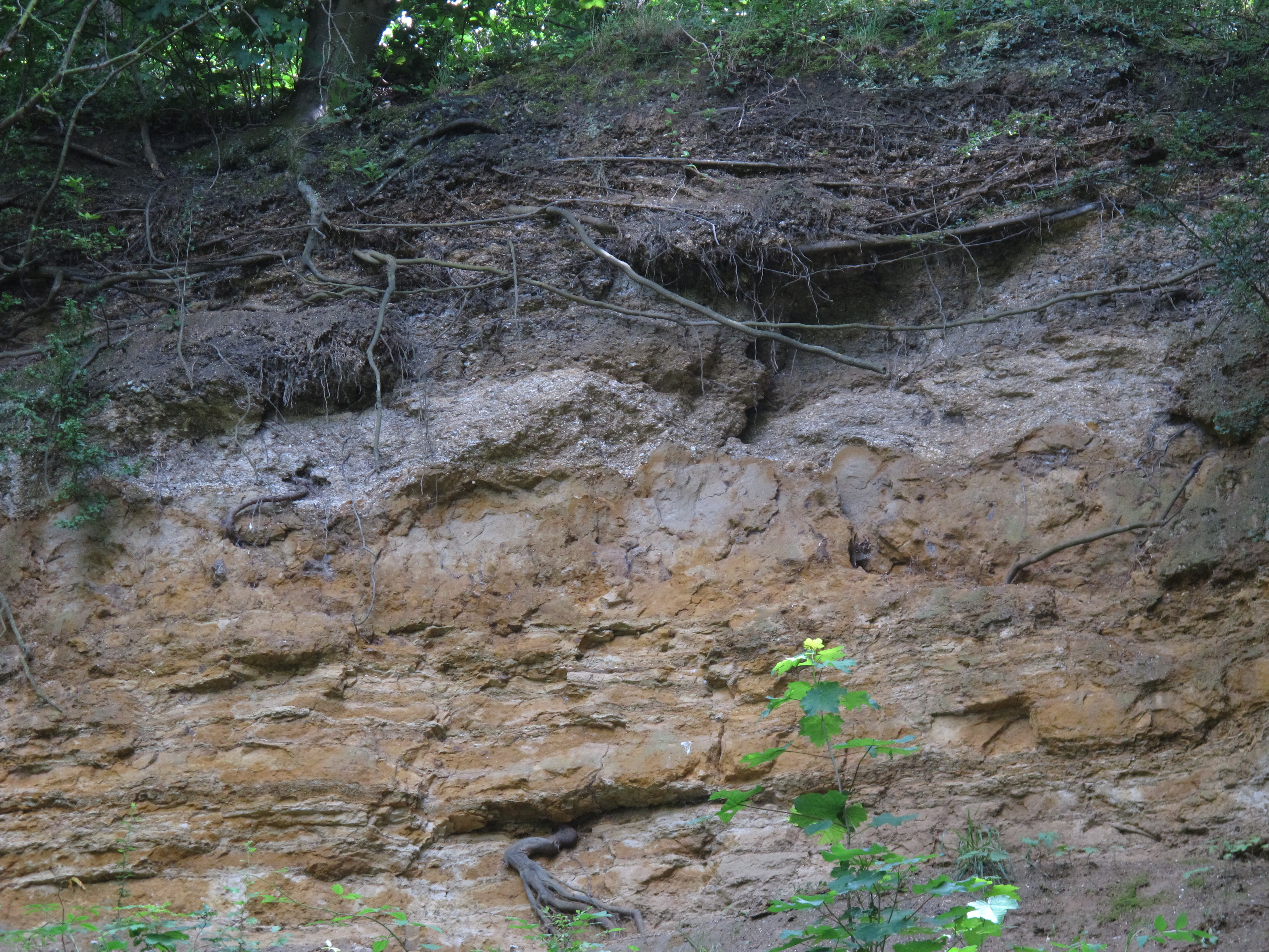 Exposure of the Lambeth Group in the upper part of the old quarry face at Gilbert's Pit in Maryon Park, Woolwich